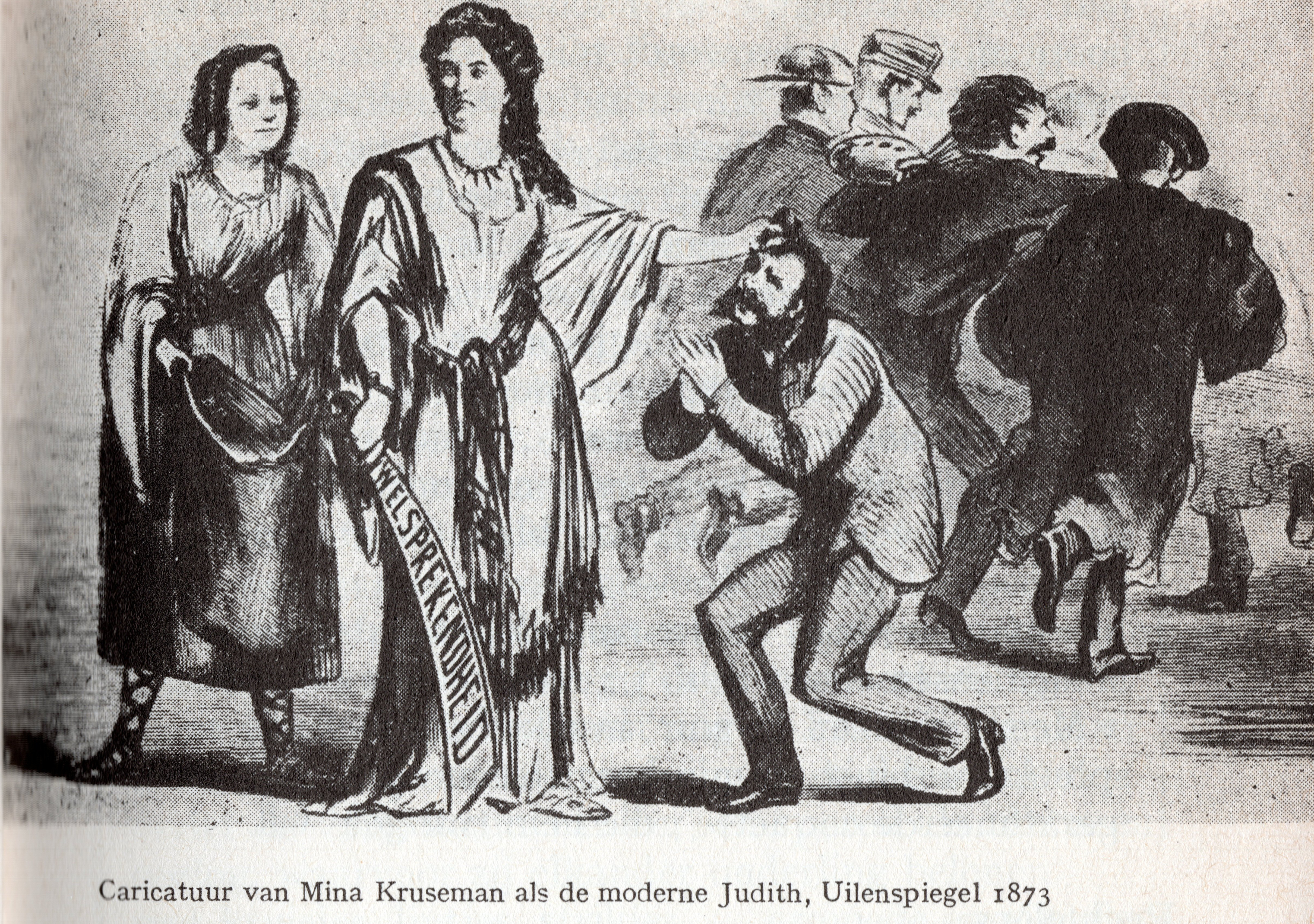 Caricatuur van Mina Kruseman als de moderne Judith, Uilenspiegel 1873